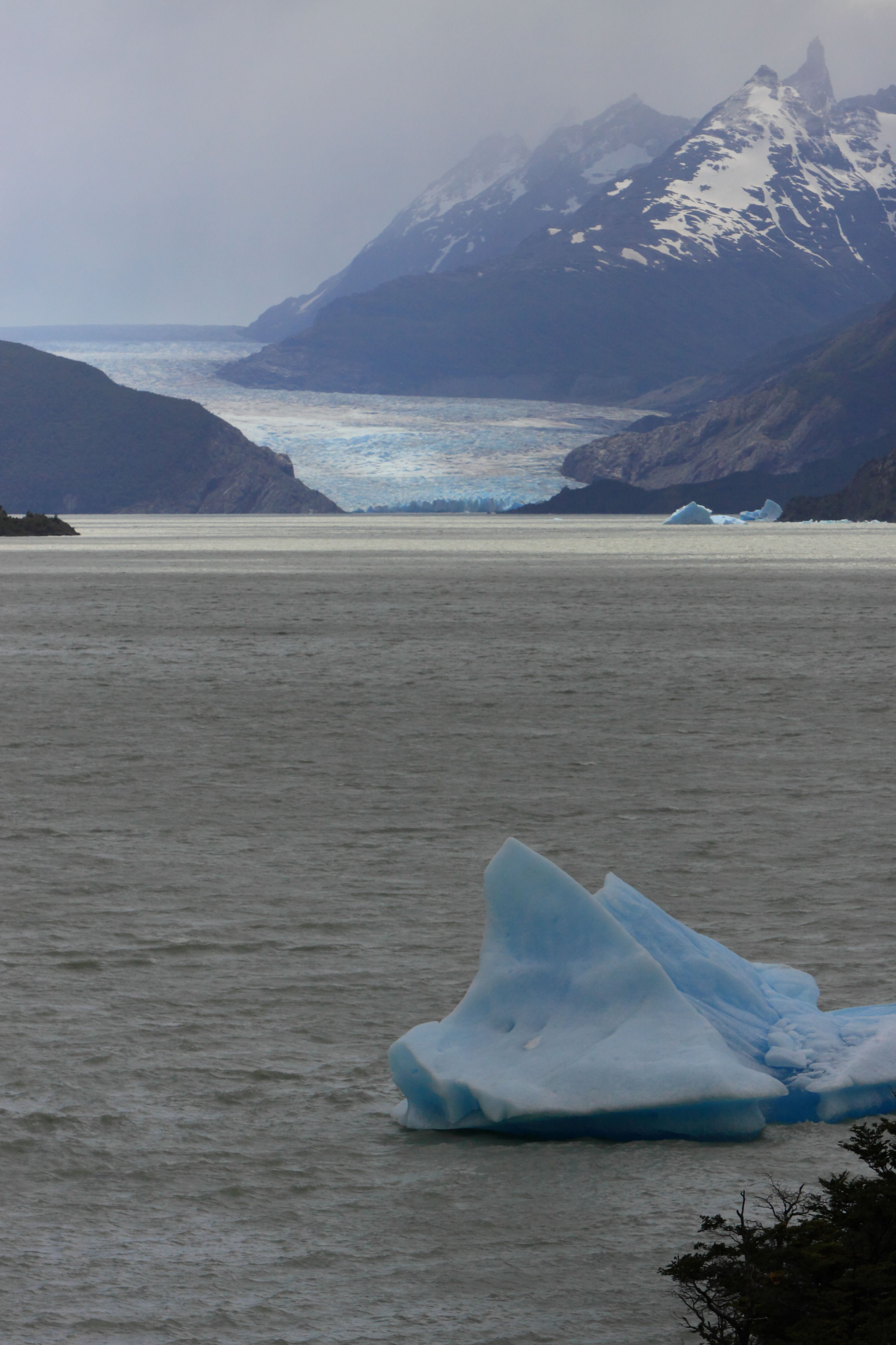 Please, have this description accessible to all by translating it in different languages.